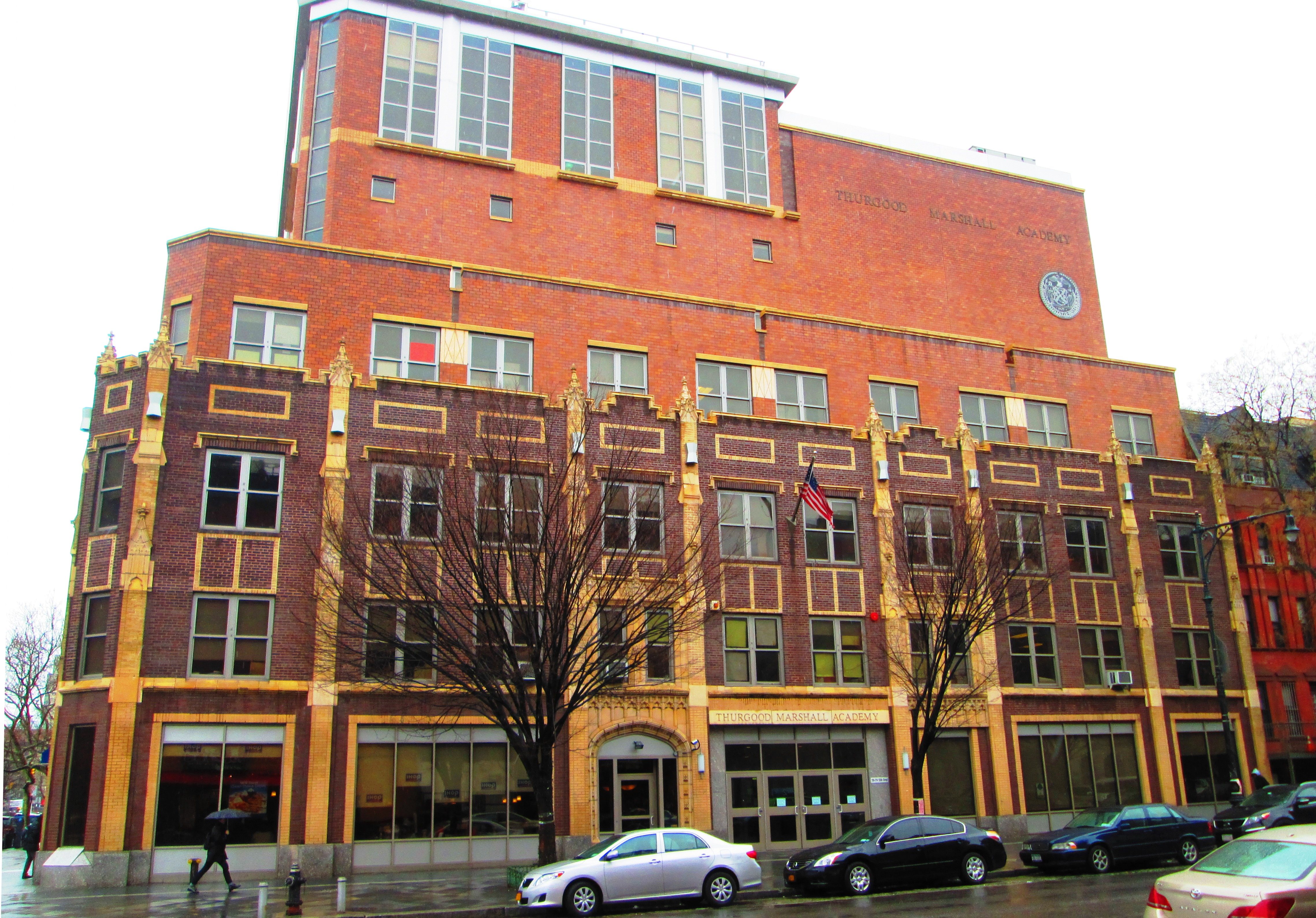 The building which houses Thurgood Marshall Academy at 200-214 West 135th Street on the corner of Adam Clayton Powell Jr. Boulevard in the Harlem neighborhood of Manhattan, New York City, was once Small's Paradise, a jazz club. The club, then called Big Wilt's Small's Paradise closed in 1986. The shell of the original three story 1924 building had six stories added to it in 2004, designed by Gruzen Samton. (Source: AIA Guide to NYC (5th ed.))